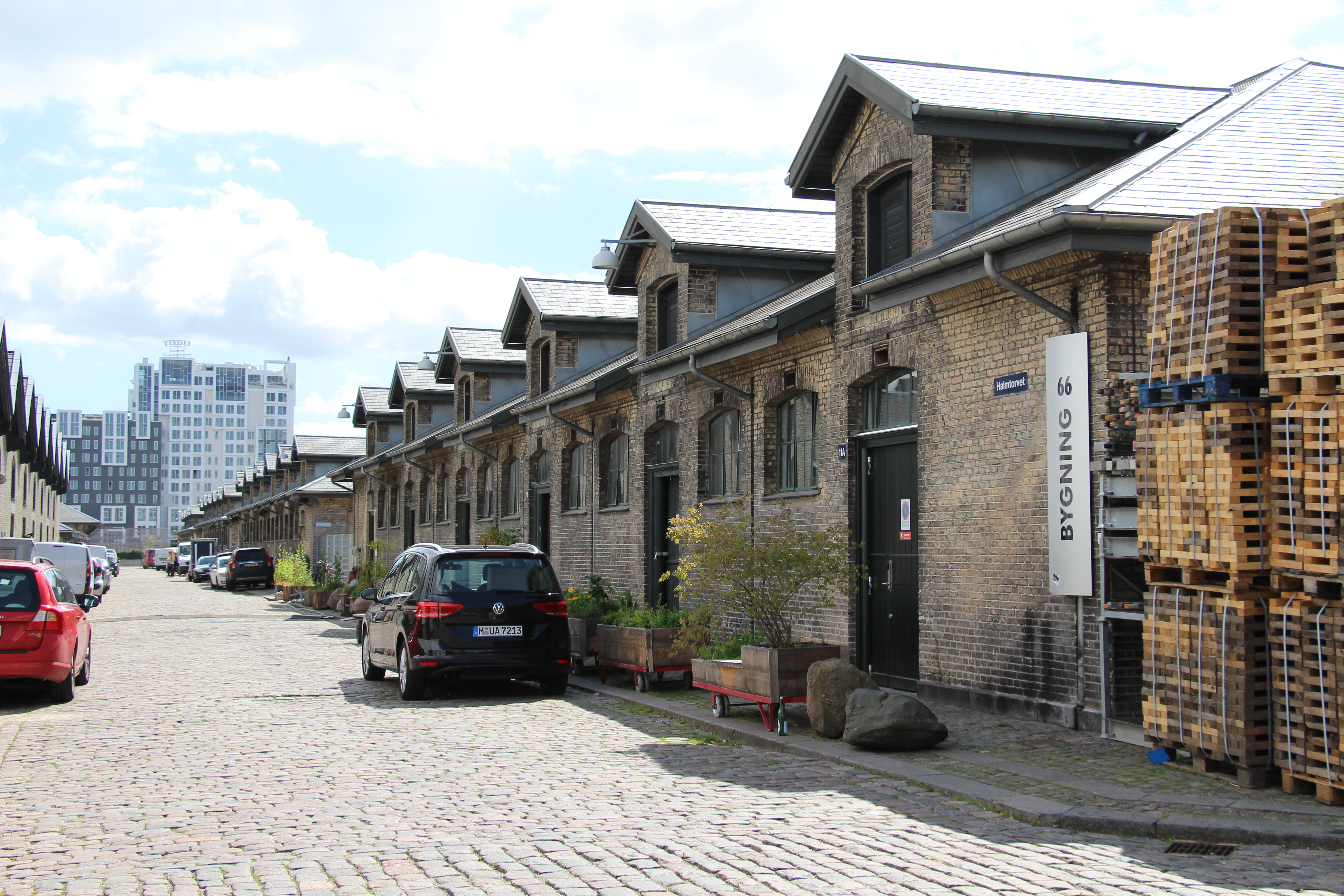 (Vesterbro) Halmtorvet Former cattle market, the older one called Den Brune Kødby - Brown Meat Market. Arch. Hans Jørgen Holm 1978-79. It has since c. 2000 been changed into a new creative cluster with galleries, art cafés, nightlife and small creative businesses like studios and architecture firms in the historical buildings.